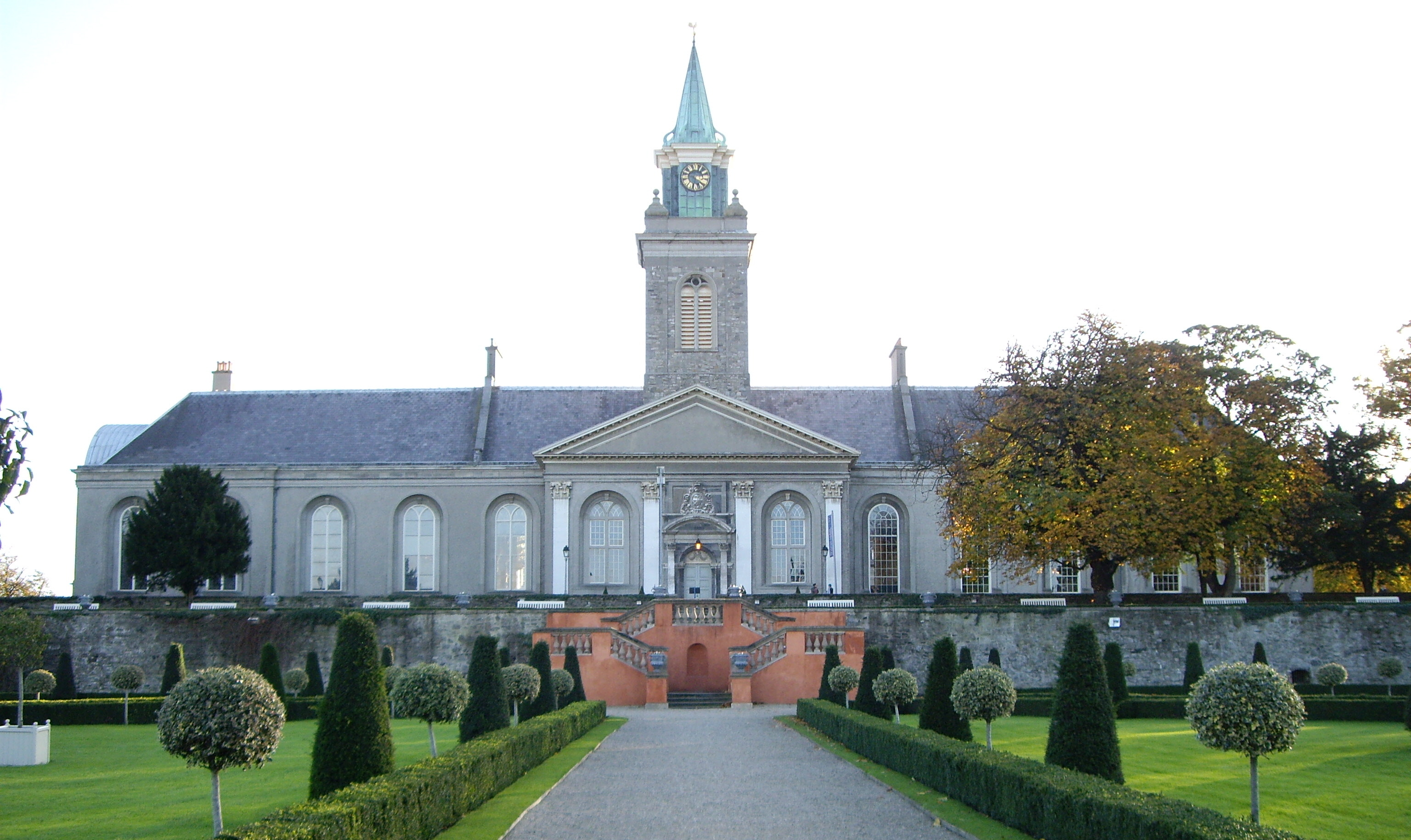 North facade of the Irish Museum of Modern Art, seen from the formal garden.